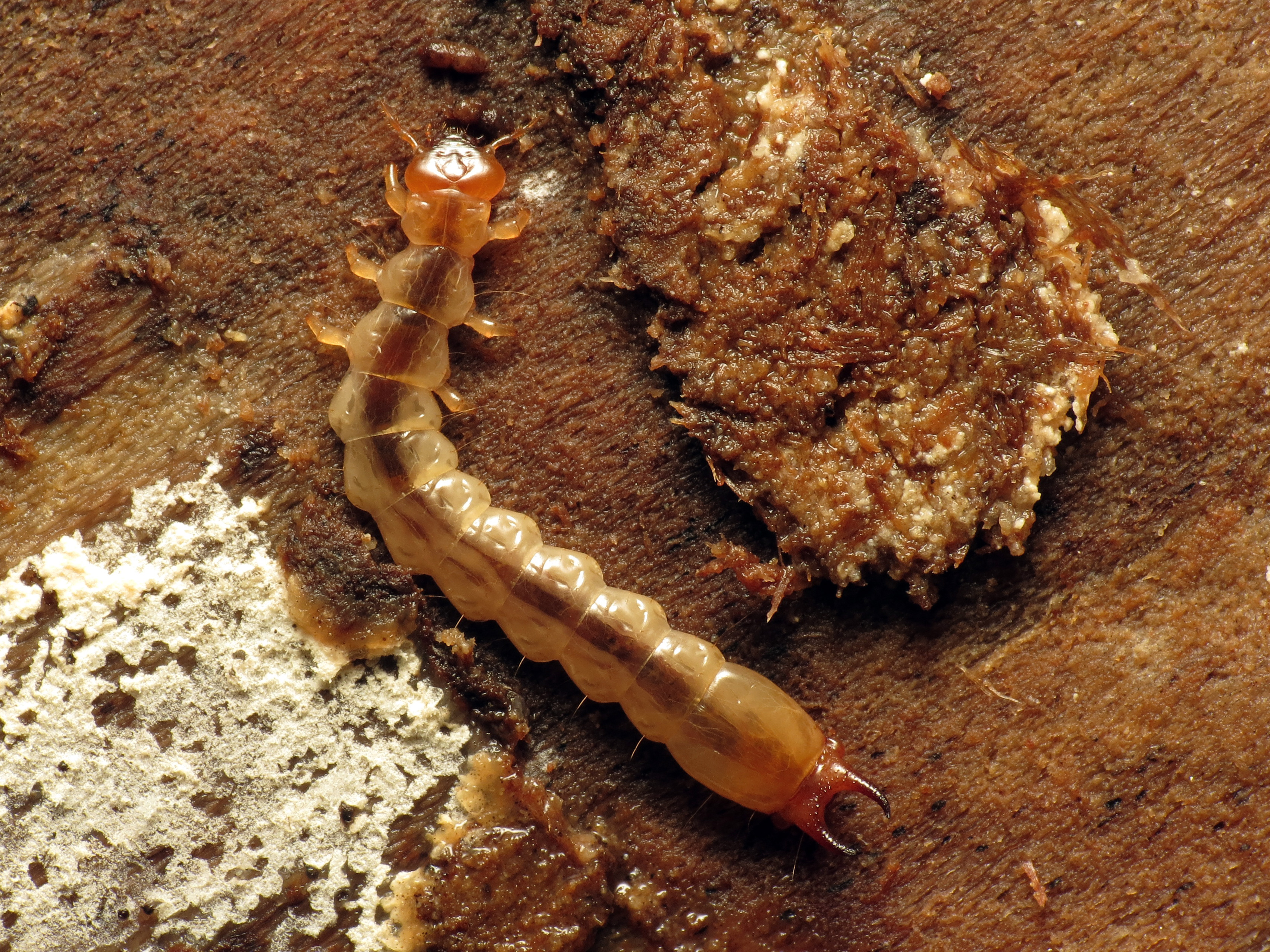 Dendroides canadensis. Rock Creek Park, Washington, DC, USA.